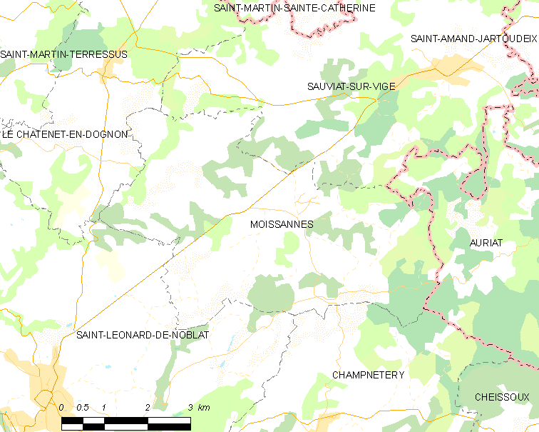 Map of French municipality Moissannes